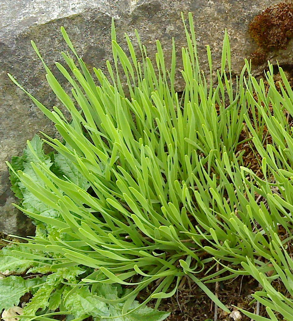 German garlic (Allium senescens)